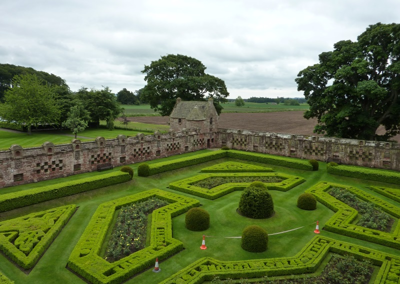 Edzell Castle, Angus, Scotland. Garden.